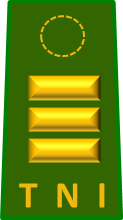 Captain rank insignia that used on daily uniforms of Indonesian Army